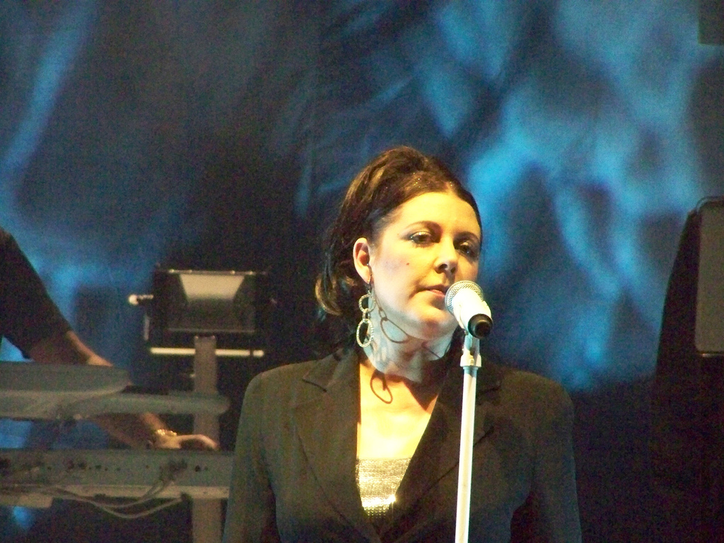 Miss Joanne Catherall in concert December 2007